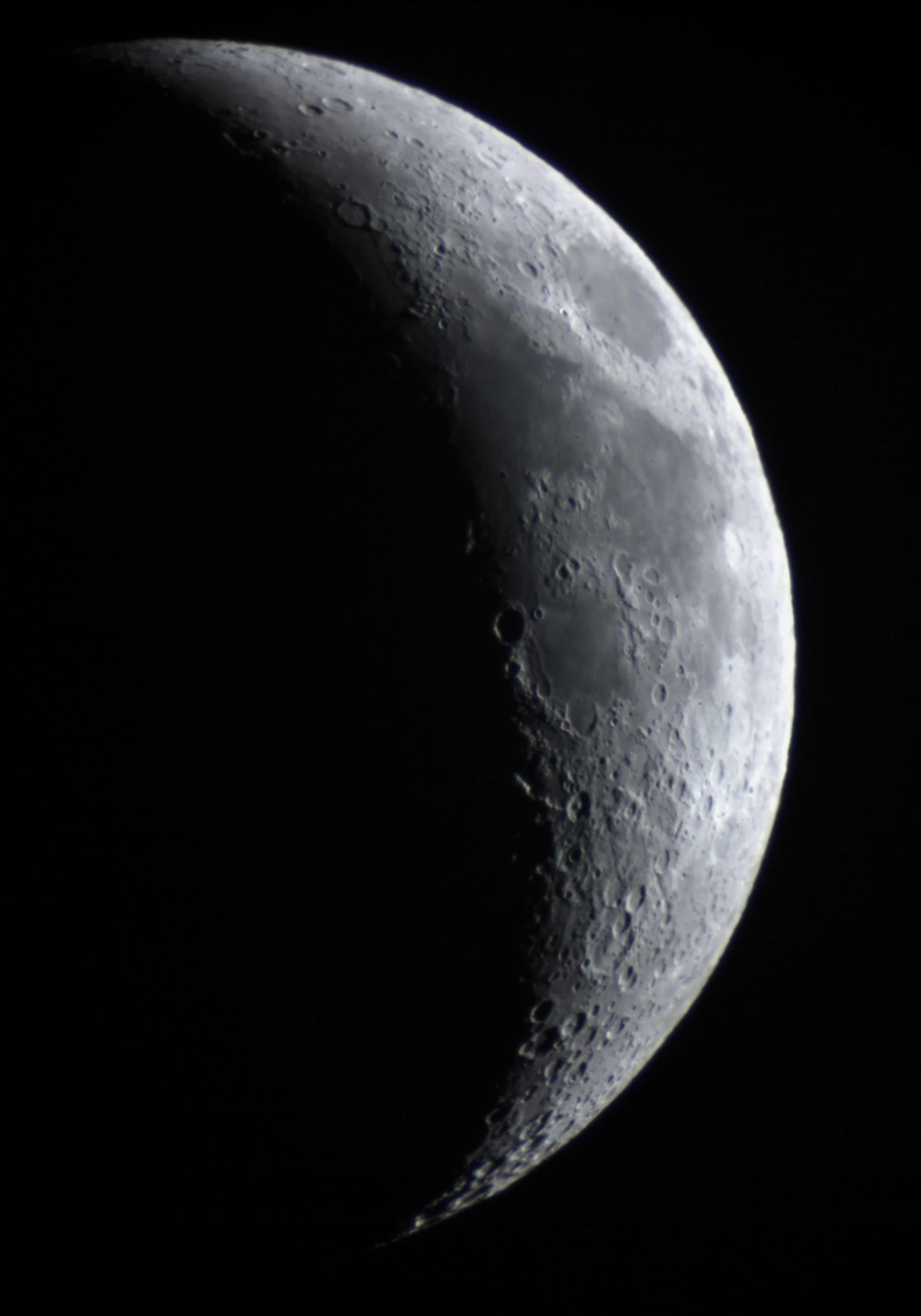 The moon, seen through the great refractor (3500mm) at Kuffner Observatory, Vienna, Austria